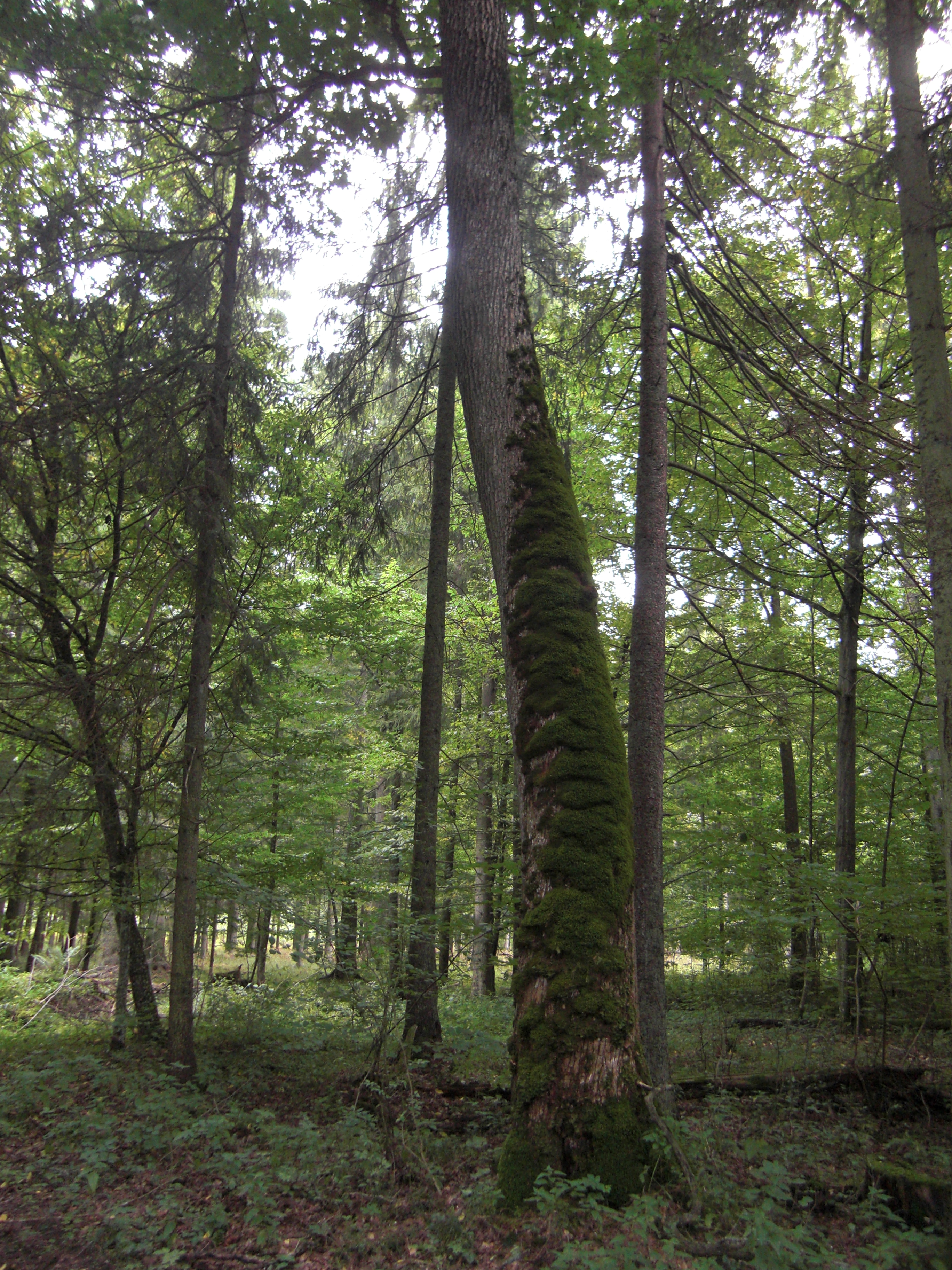 Acer platanoides in Puszcza Białowieska square 216B